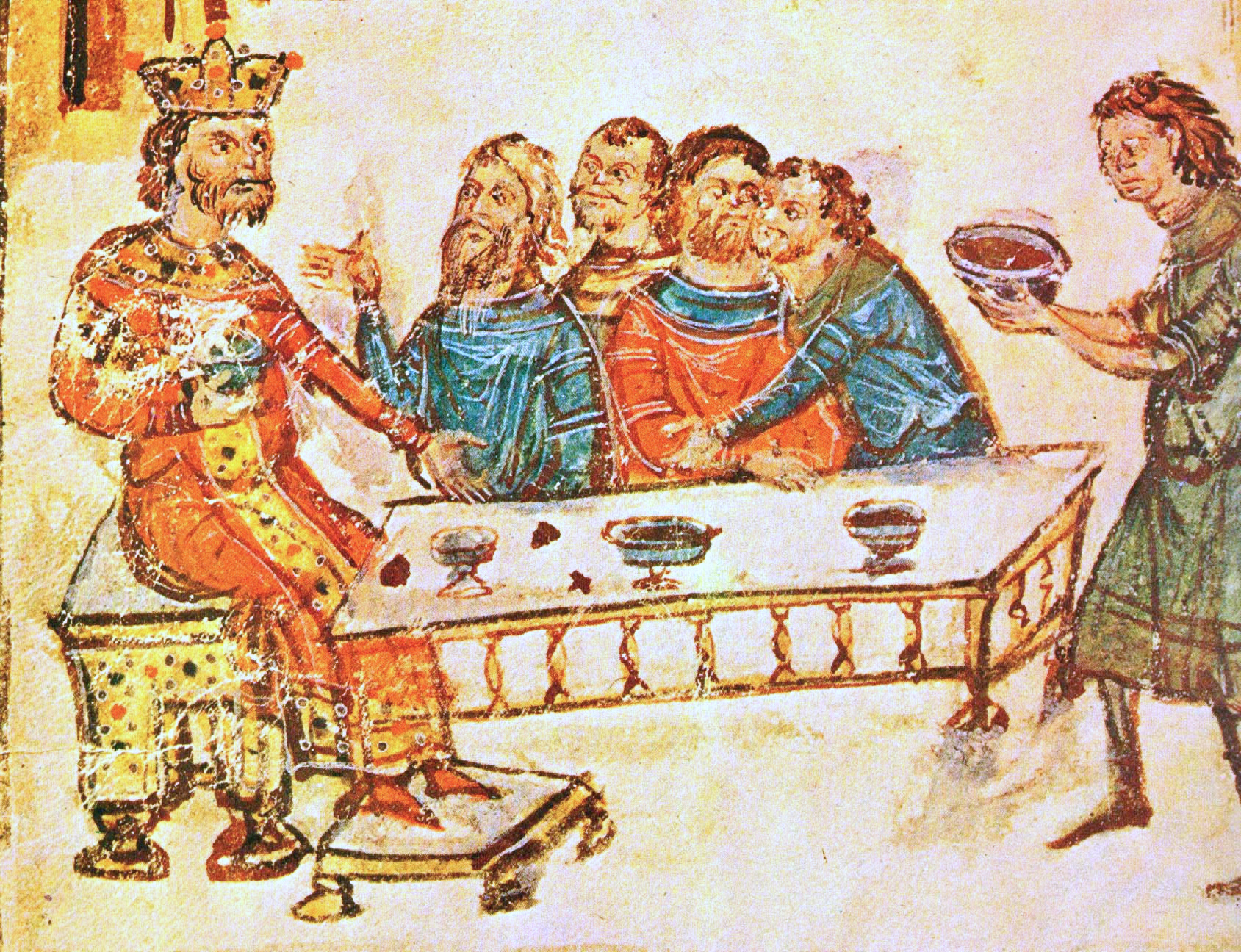 Krum of Bulgaria after victory over Nikiphor